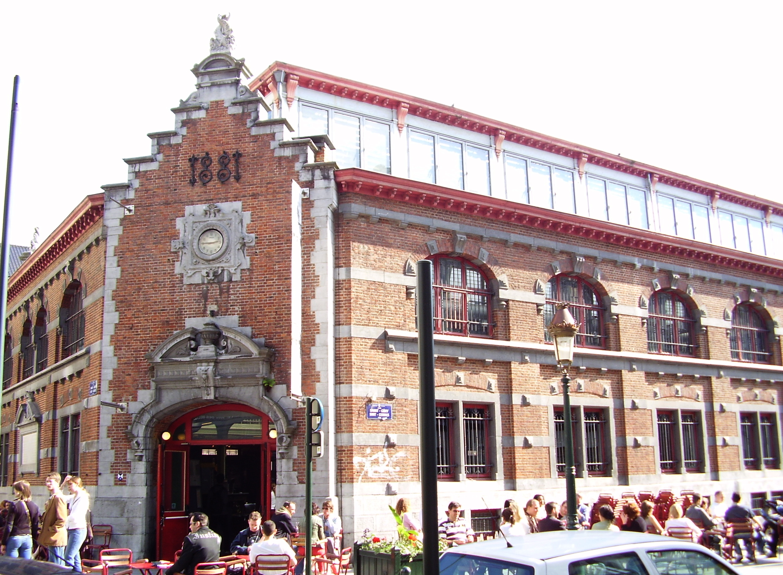 Description: Anciennes Halles Saint-Géry - 1881 (Bruxelles) Author: User:Ben2 Date of creation: 06 juin 2006 Source: Photo personnelle